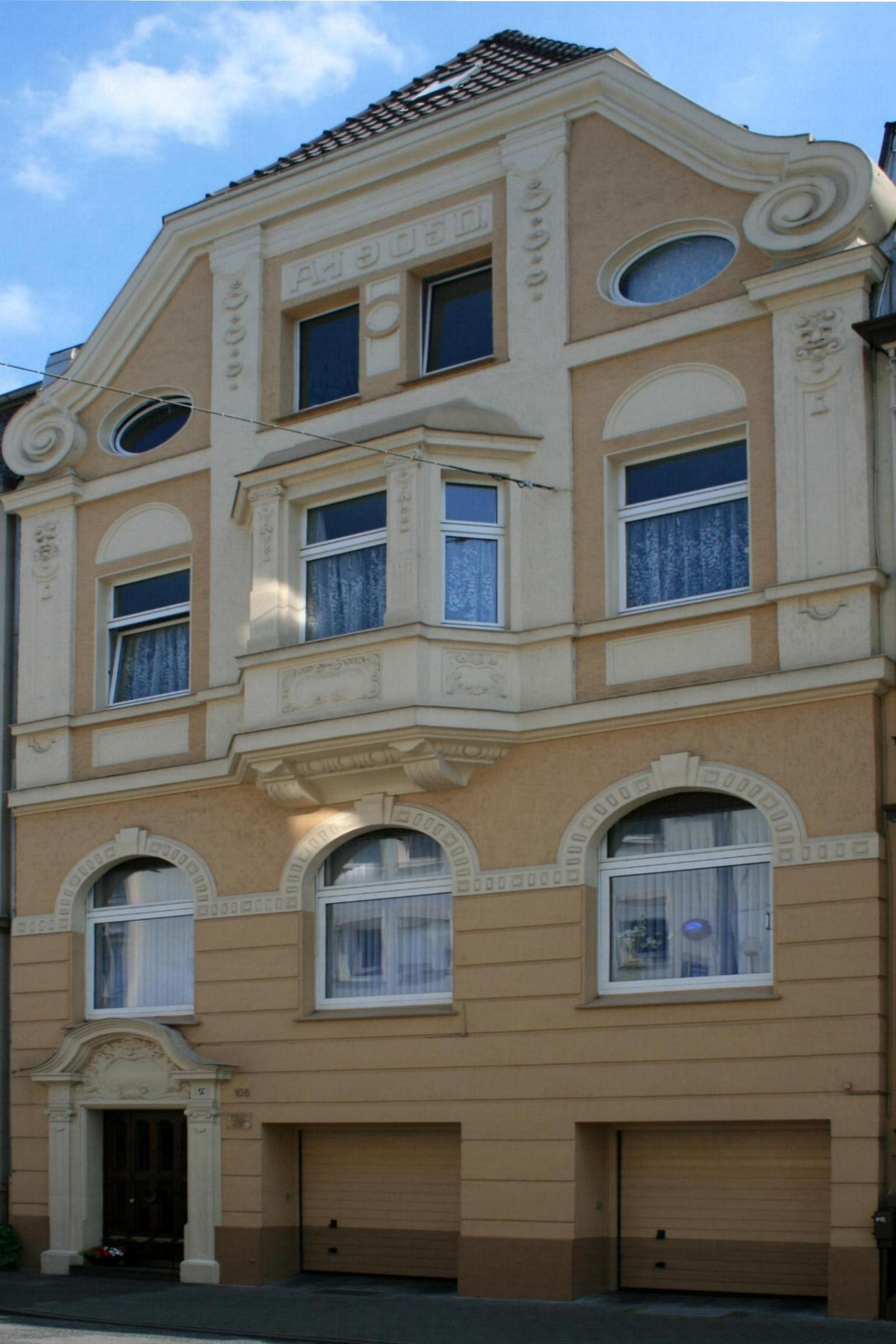 Cultural heritage monument No. K 022 in Mönchengladbach